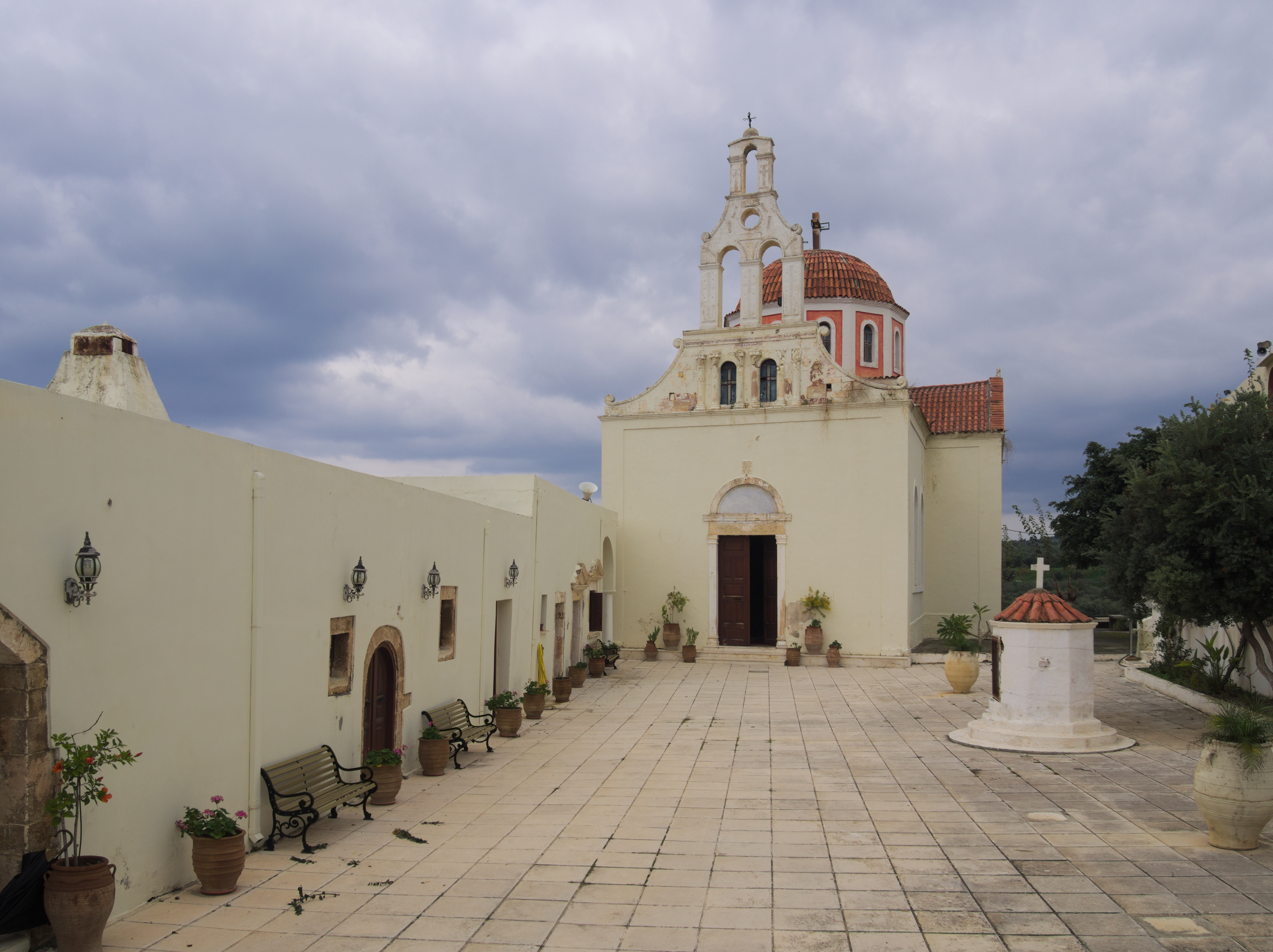 The interior of Arsani monastery, Rethymno.